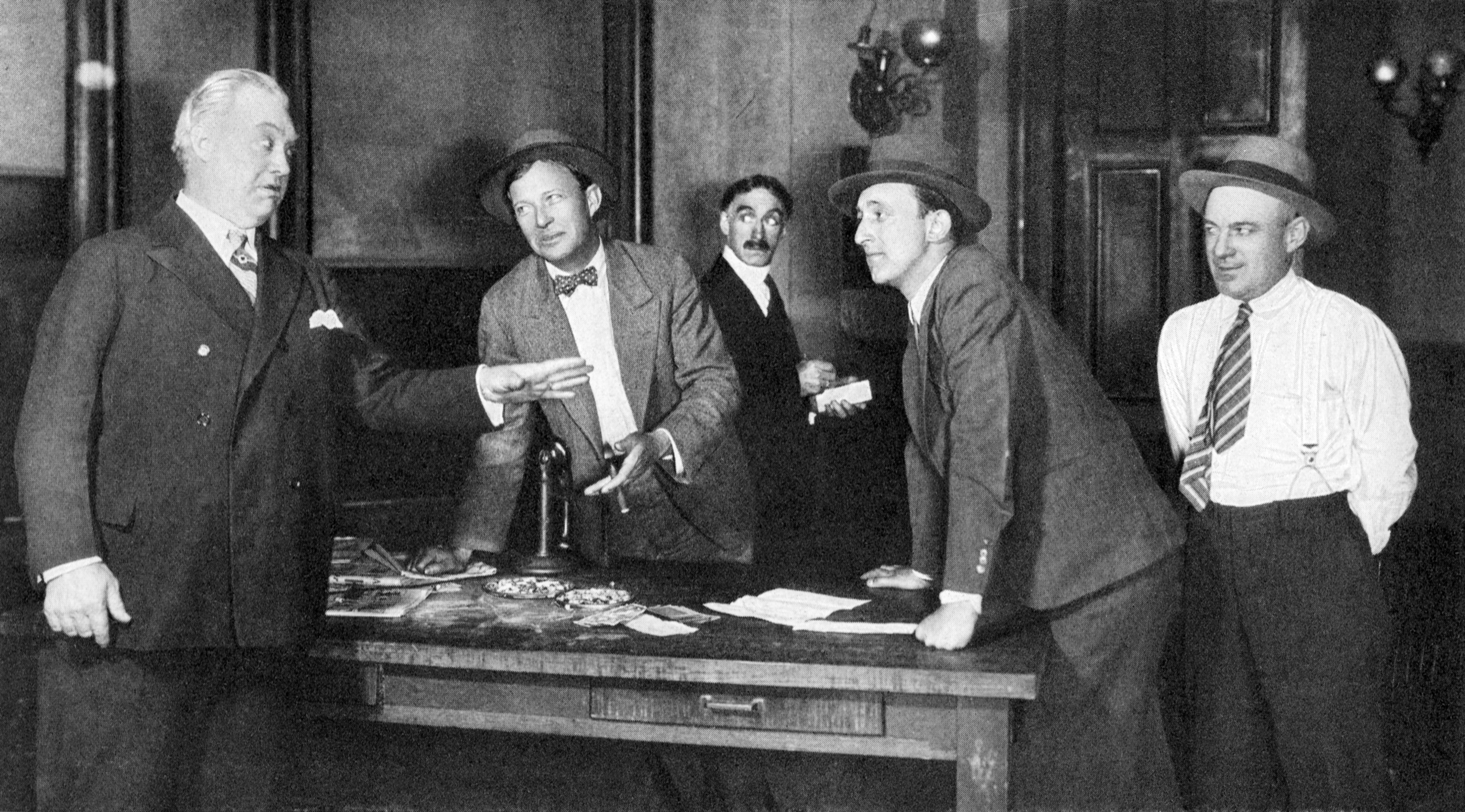 Promotional photograph for the 1928 Broadway production of The Front Page Caption reads in part as follows: George Barbier as "The Mayor," Willard Robertson as "Murphy," Claude Cooper as "Sheriff Hartman," Allen Jenkins as "Endicott" and William Foran as "McCue."